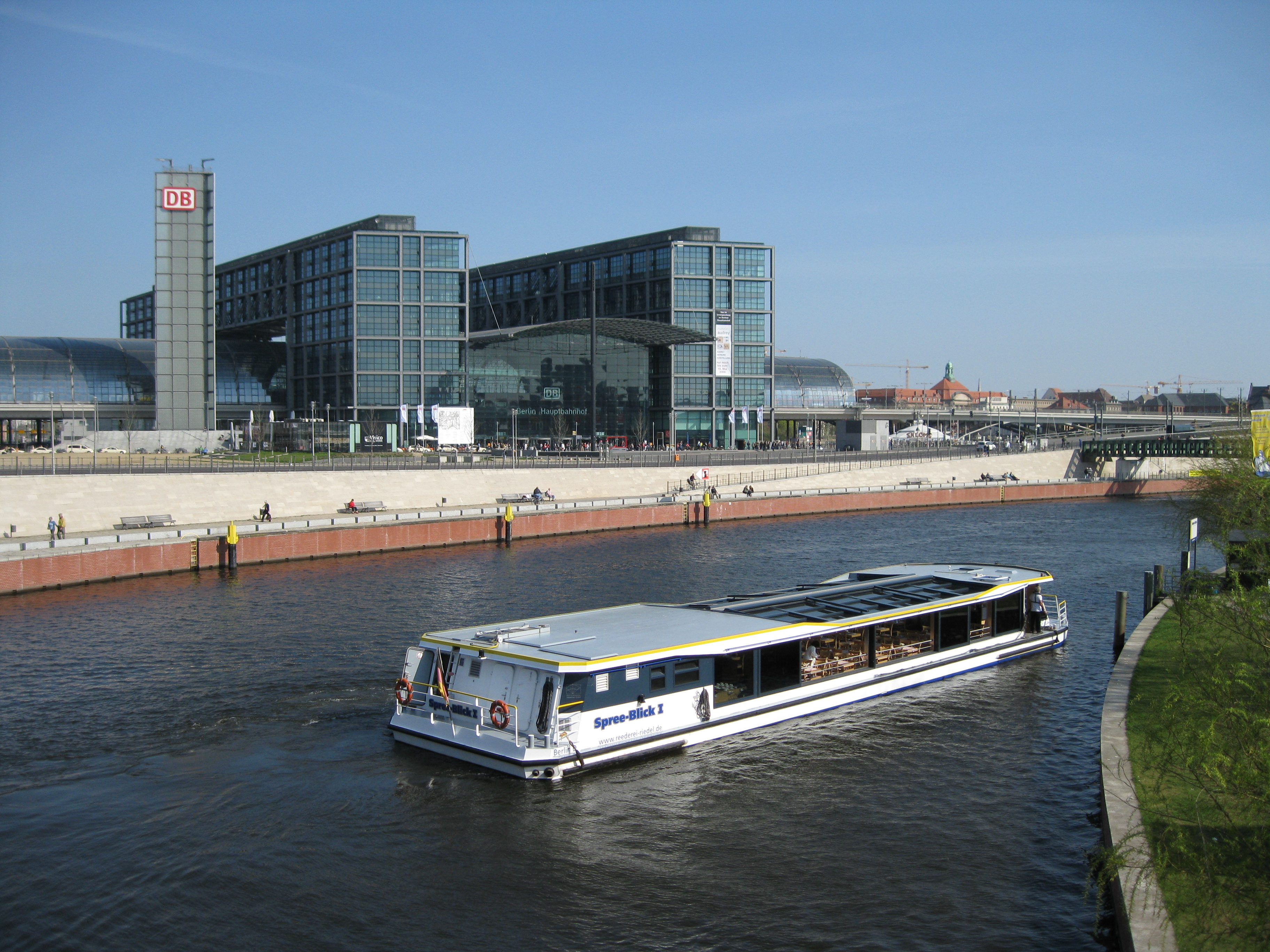 Berlin Hauptbahnhof (main train station) with Spree river